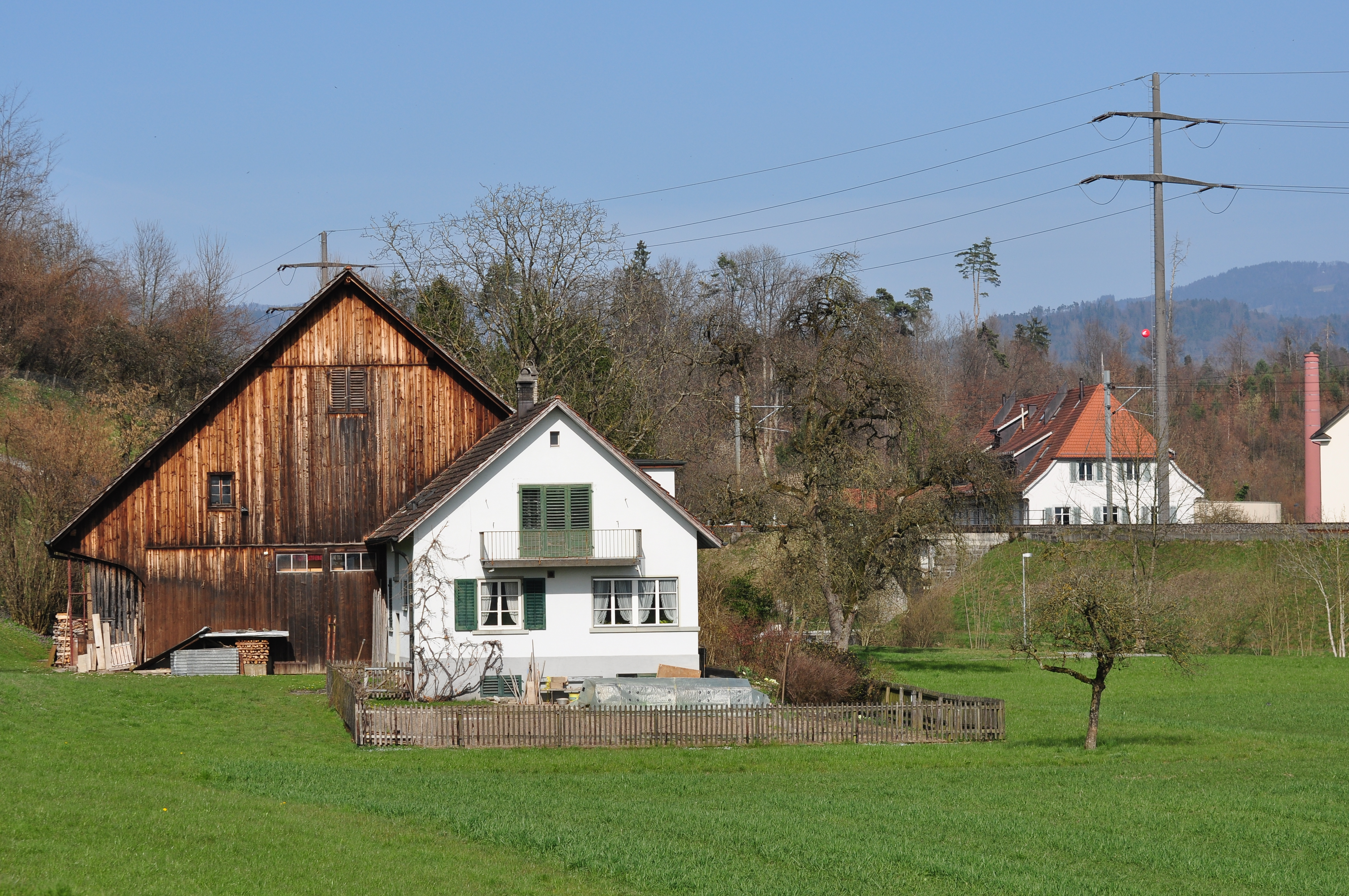 Meienberg in Rapperswil respectively Jona (Switzerland)